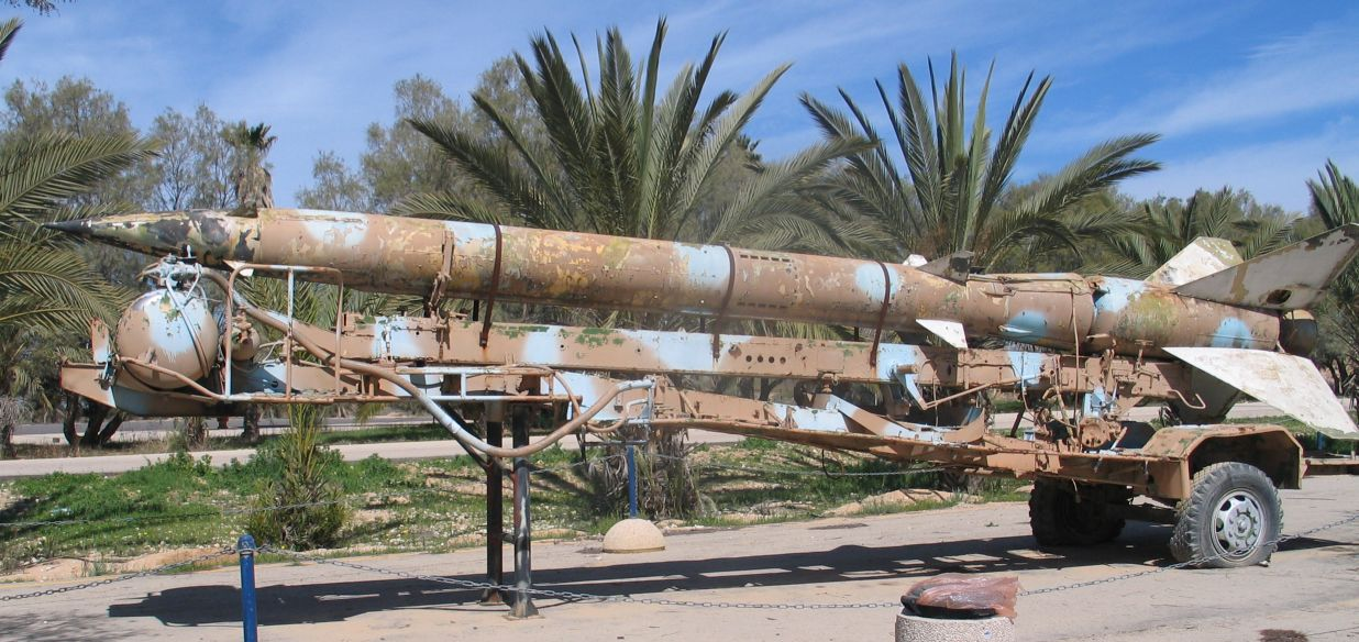 SA-2 Guideline missile at Muzeyon Heyl ha-Avir, Hatzerim airbase, Israel. 2006.